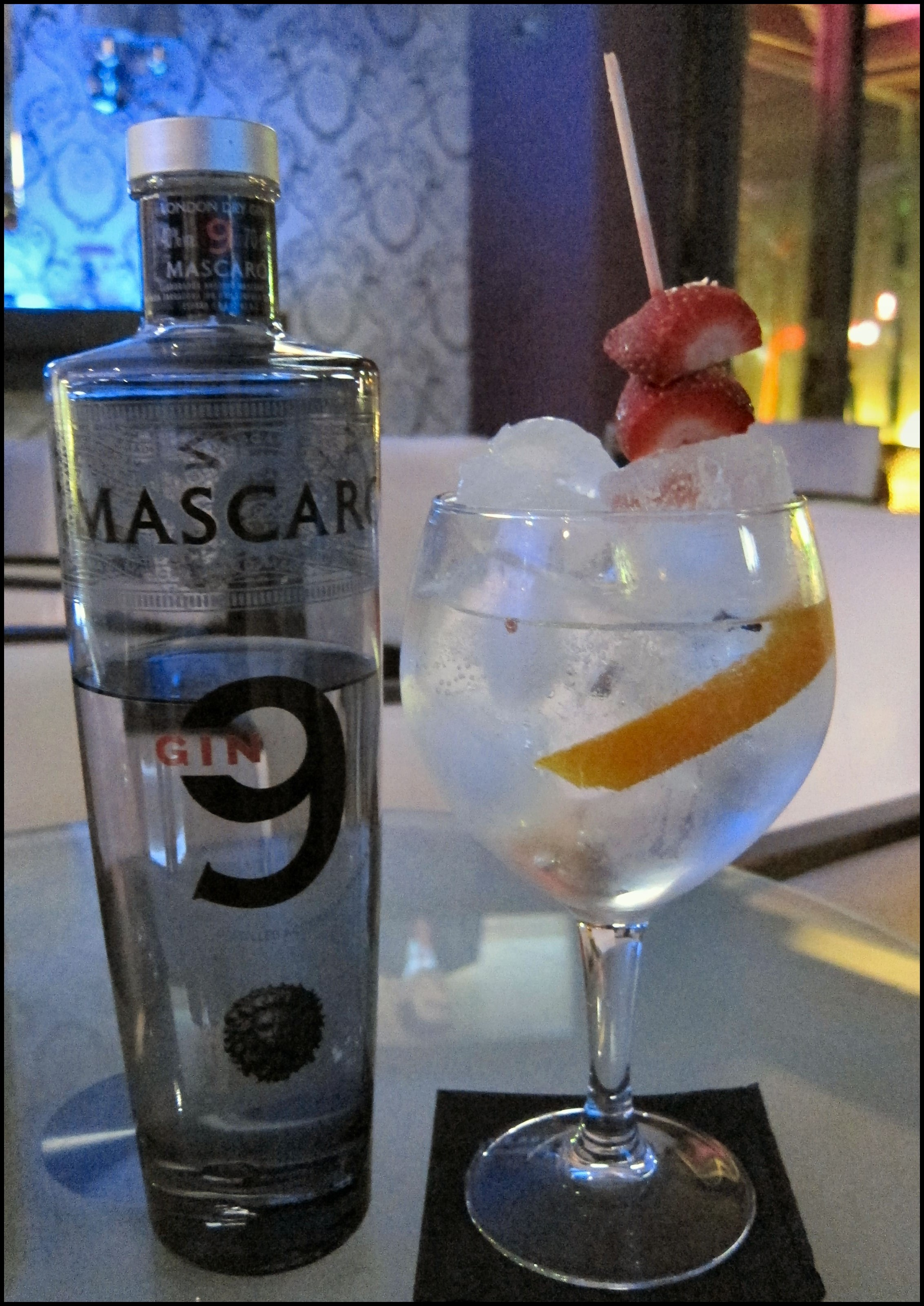 A Gin Tonica with Fruit Garnish at Cappuccino Gin Bar in Salou, Spain, June-2013